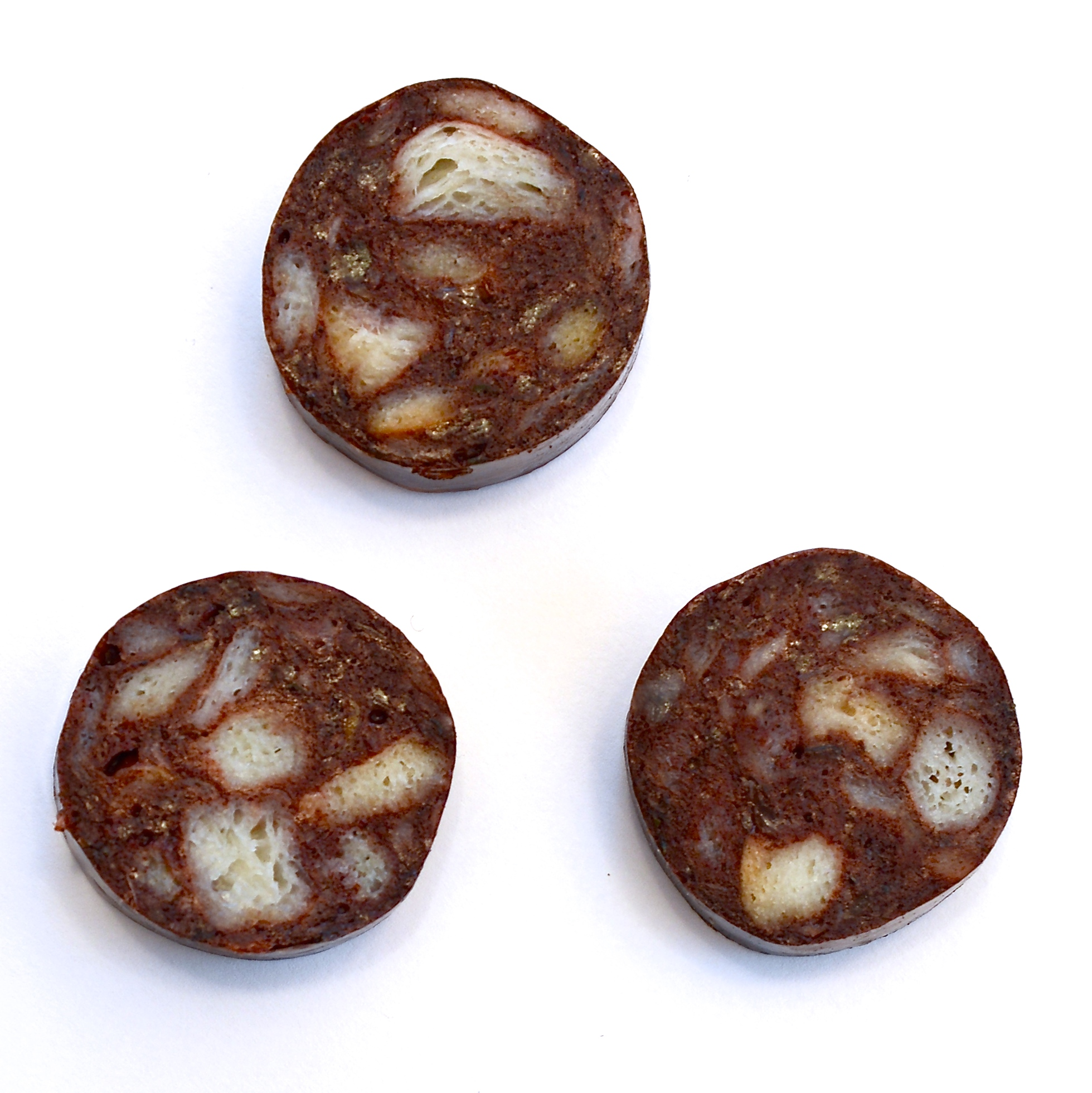 Österreichische Blutwurst (Blunze) mit Semmelwürfeln aus Sieggraben im Burgenland